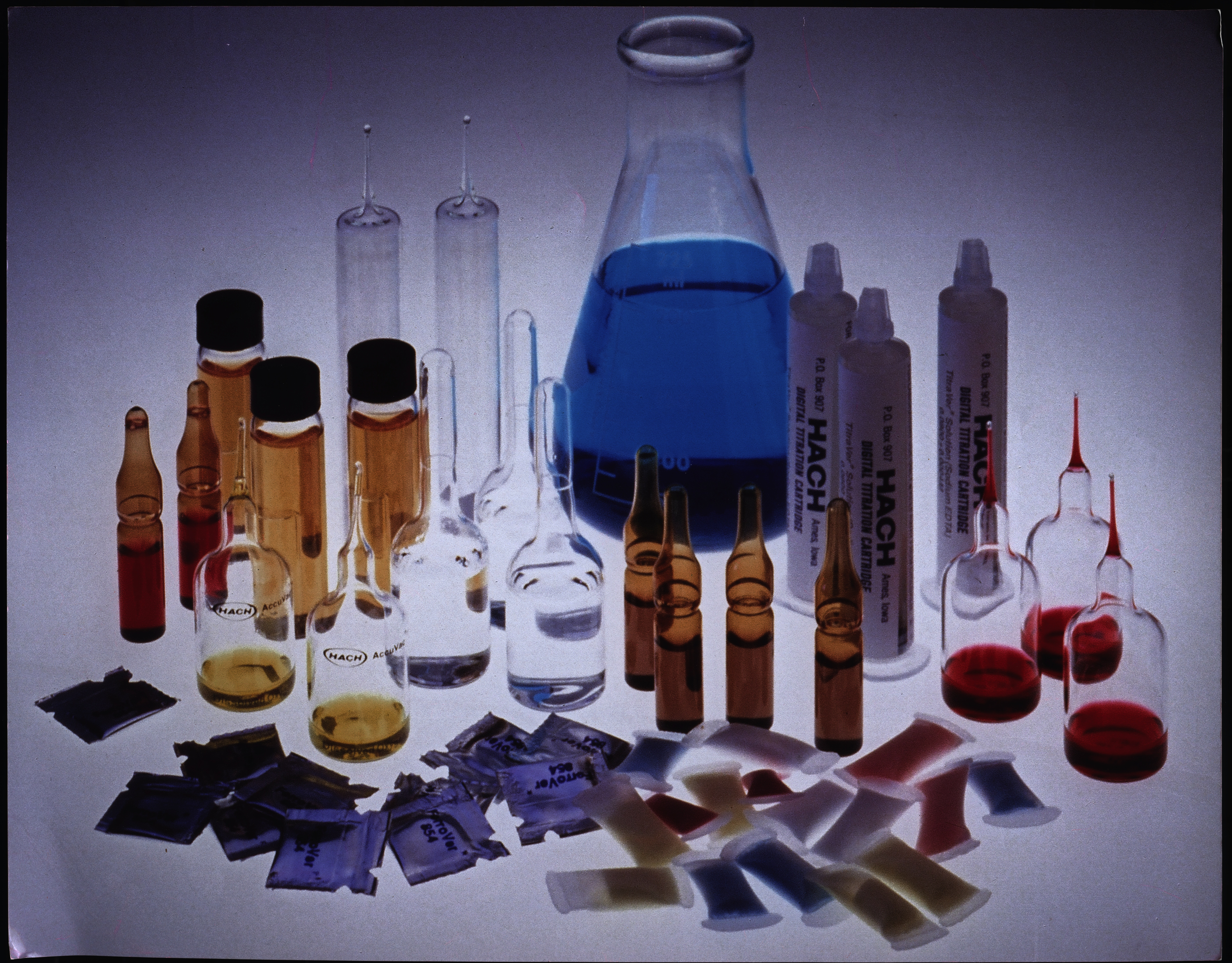 Image of equipment for chemical analysis of water quality. "Many of the waters in chemical analysis are absolutely beautiful when you have the test run..." The image was created for a video about the work of chemist and entrepreneur Kathryn Hach Darrow.